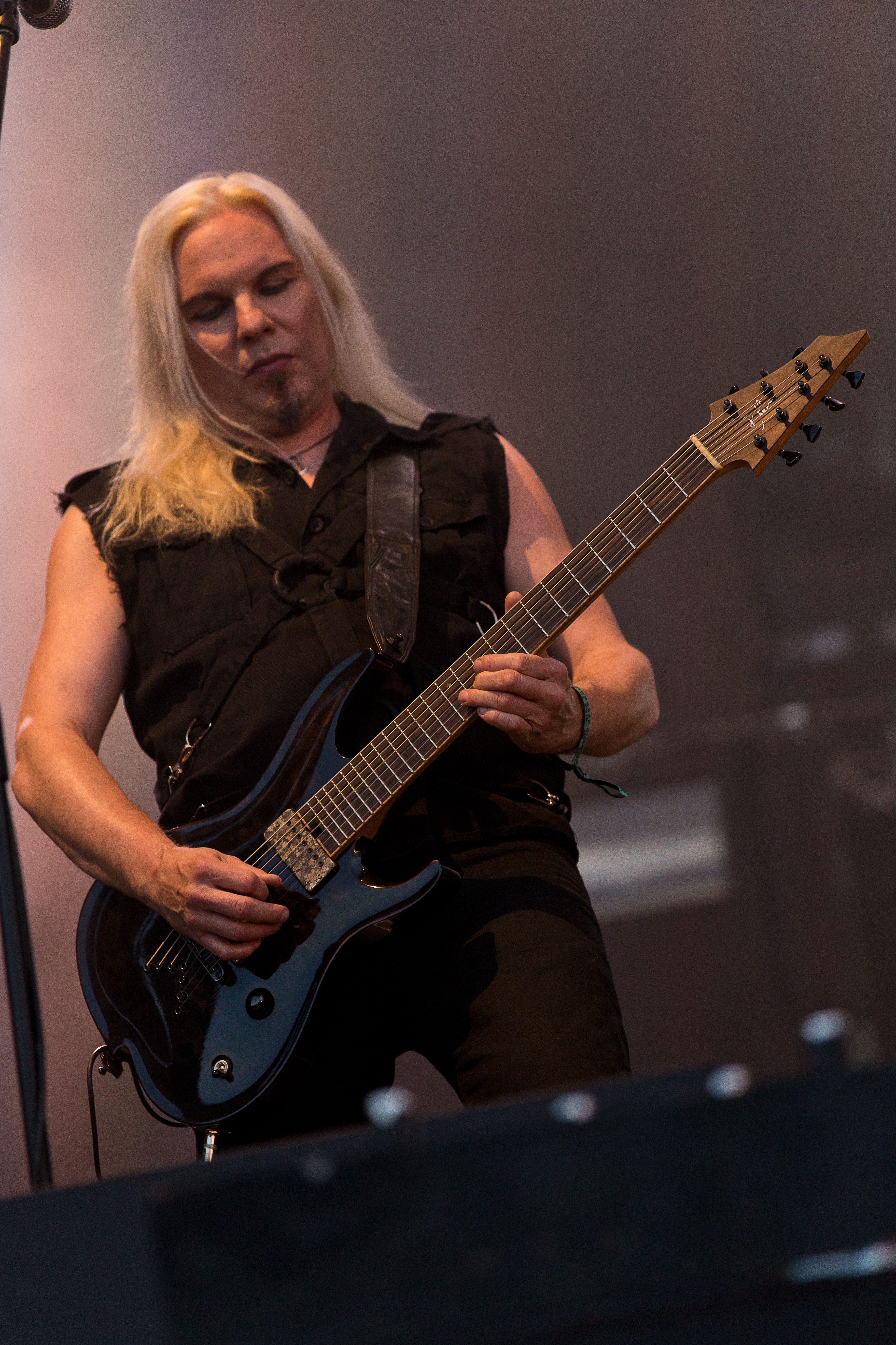 The German rock band ASP at the Rockharz Open Air 2016 in Ballenstedt/Germany.